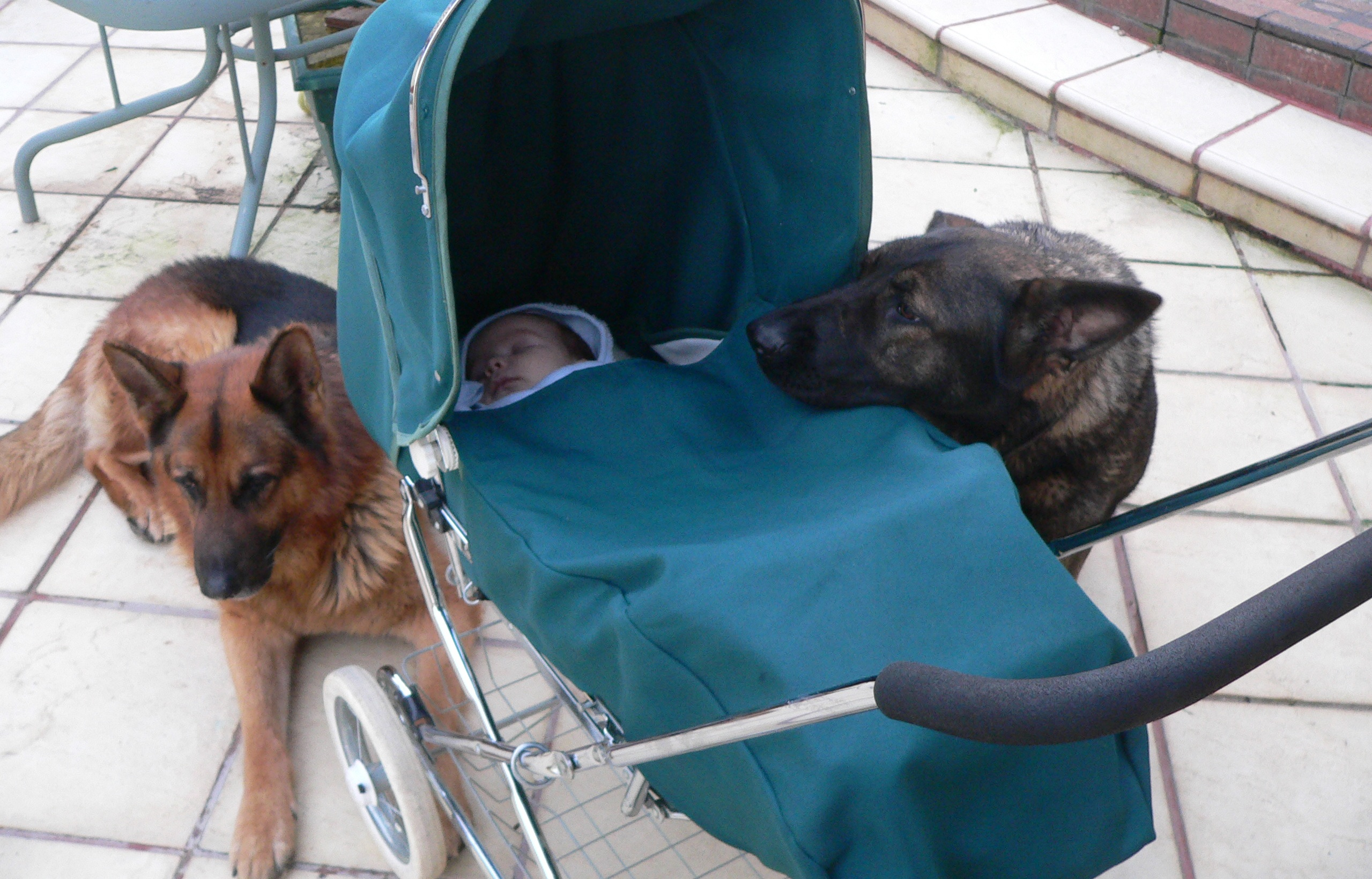 A newborn infant with two GSD